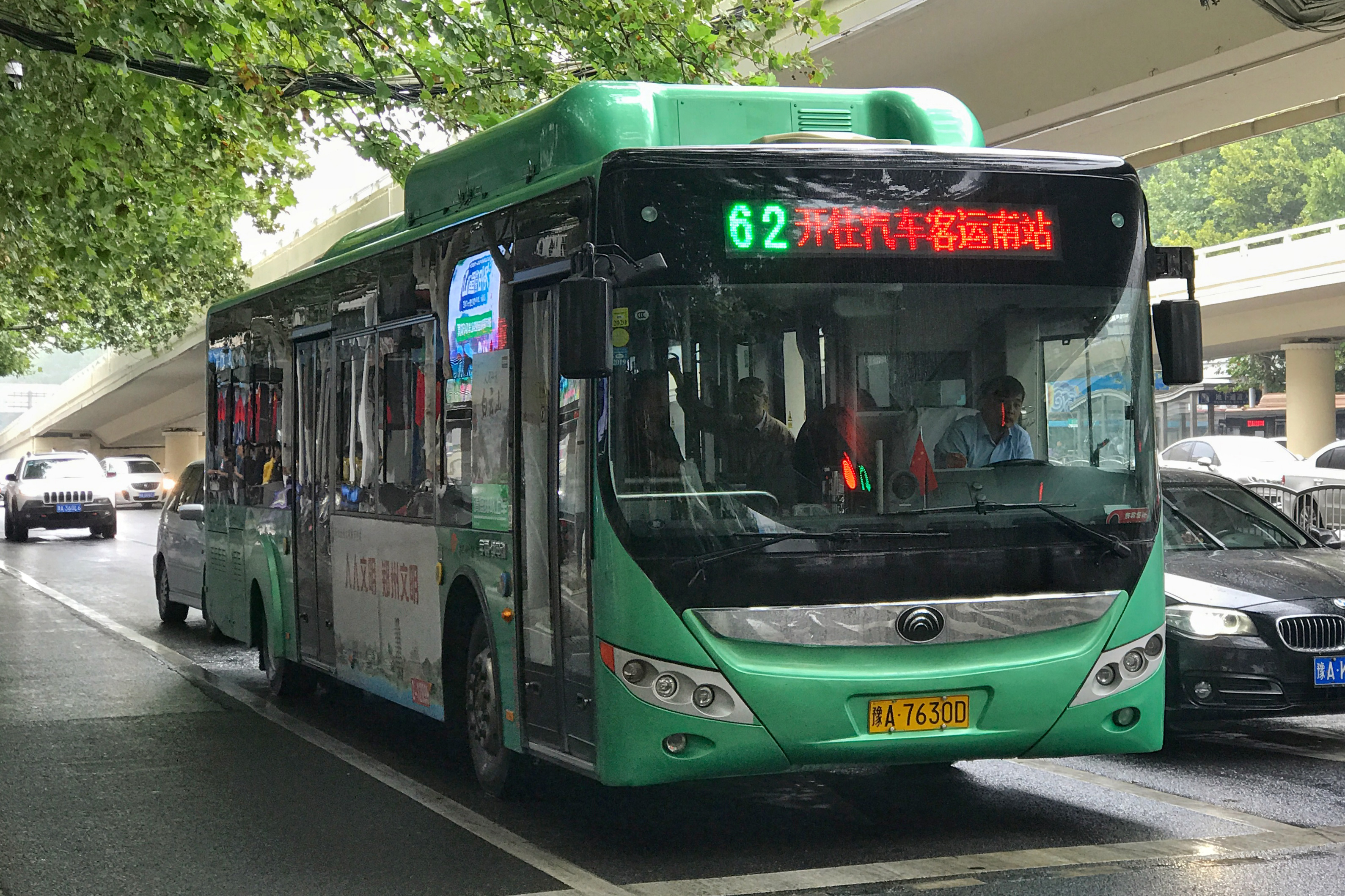 Yutong E12 on Zhengzhou Bus Route 62